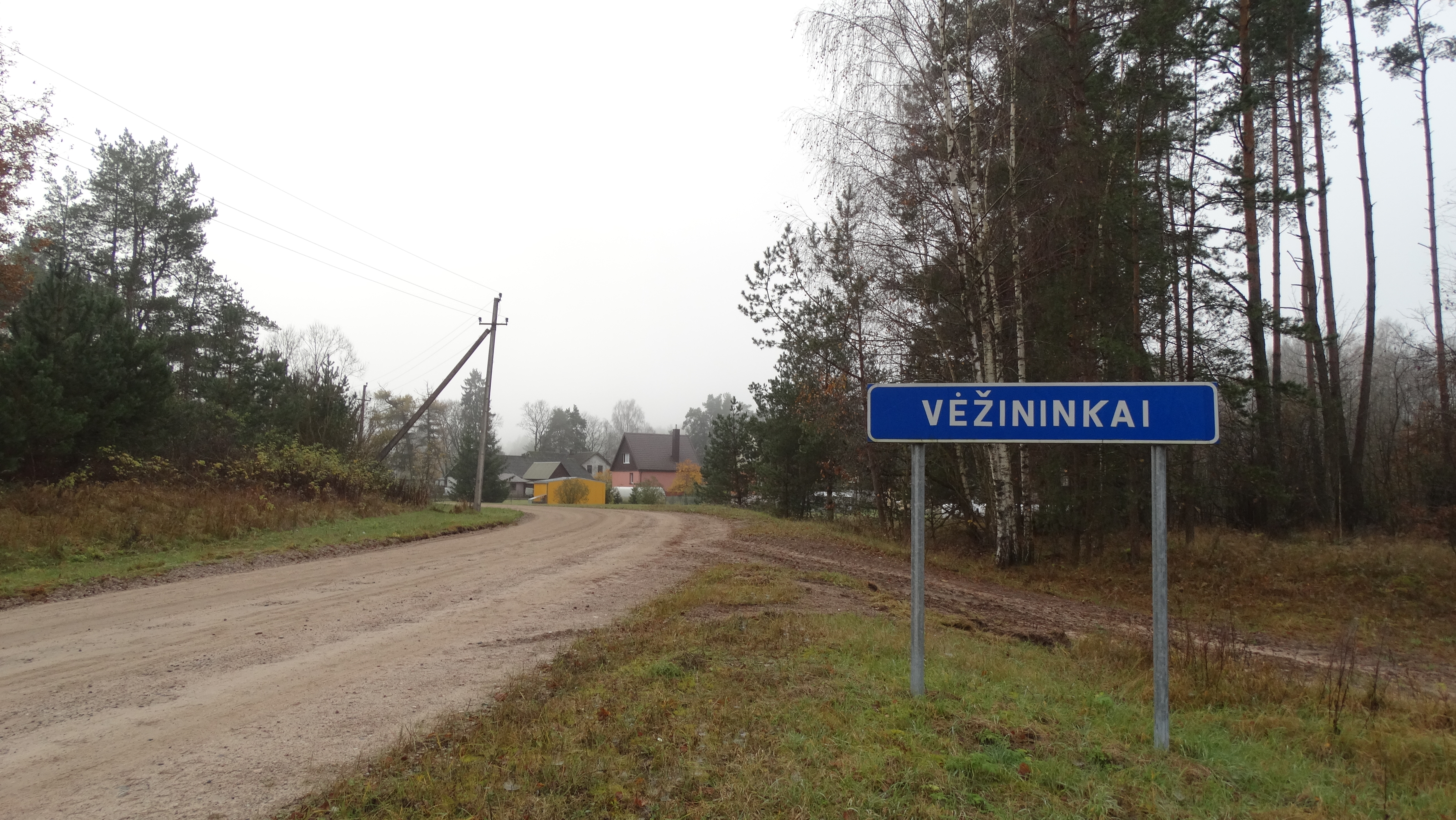 Vėžininkai, Pagėgiai Municipality, Lithuania